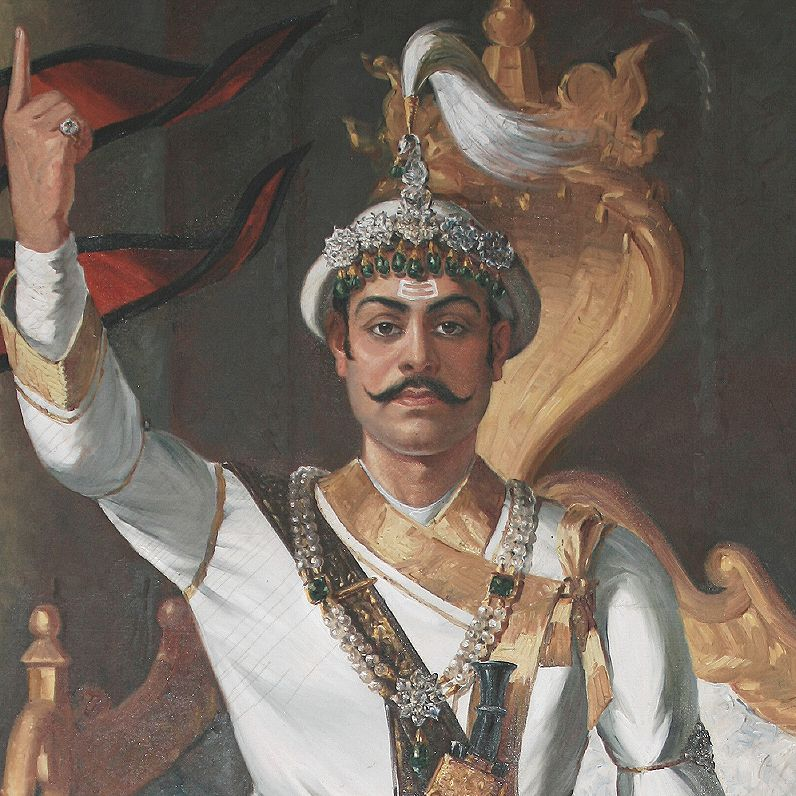 His Majesty King, Prithvi Narayan Shah (1769-1775), lebte 1723-1775